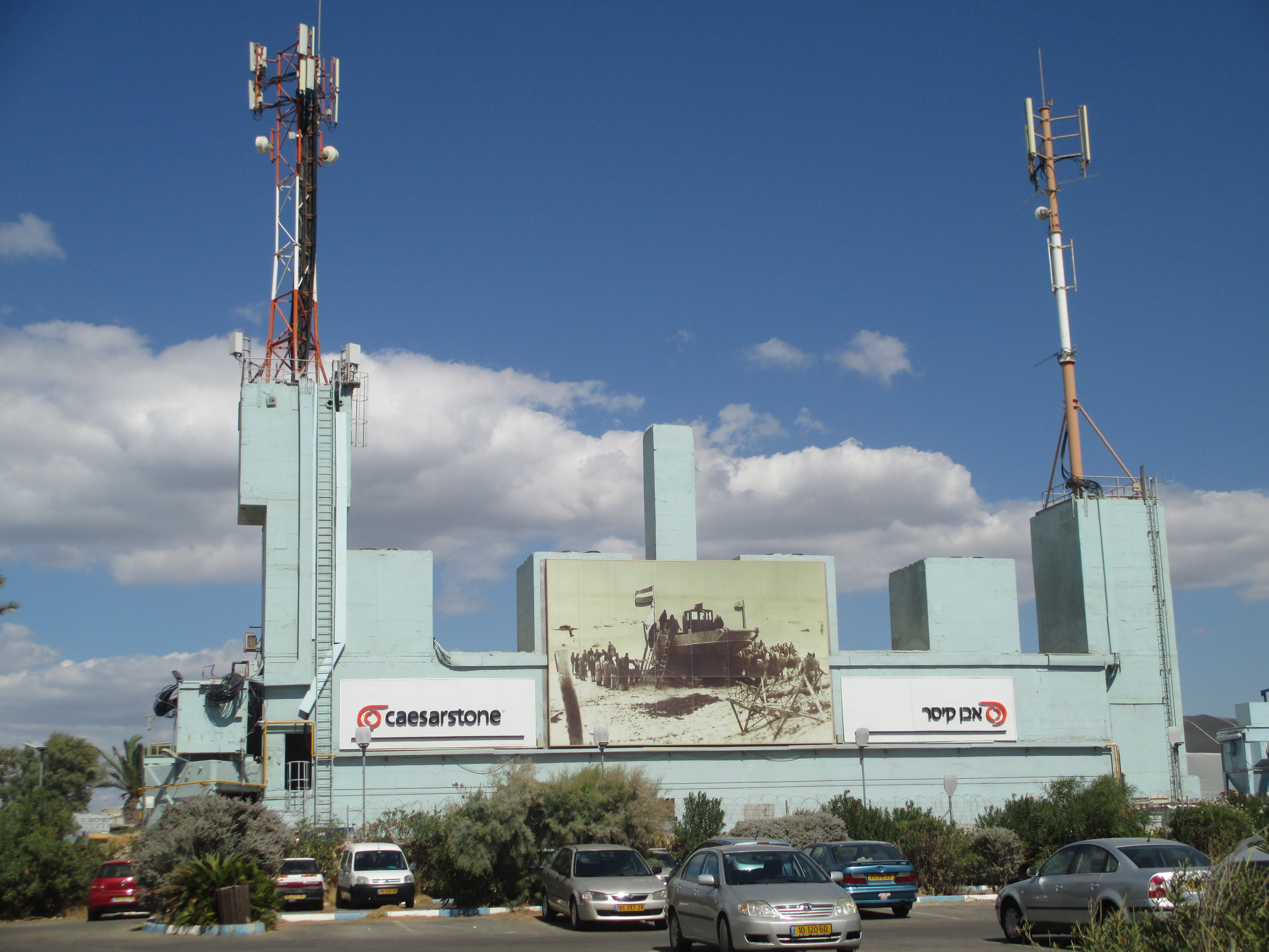 Kibbutz Sdot Yam